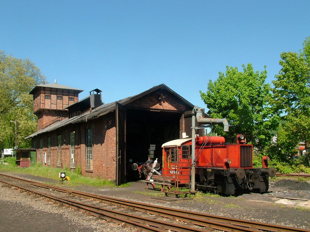 The engine shed in Rinteln Nord station, Germany